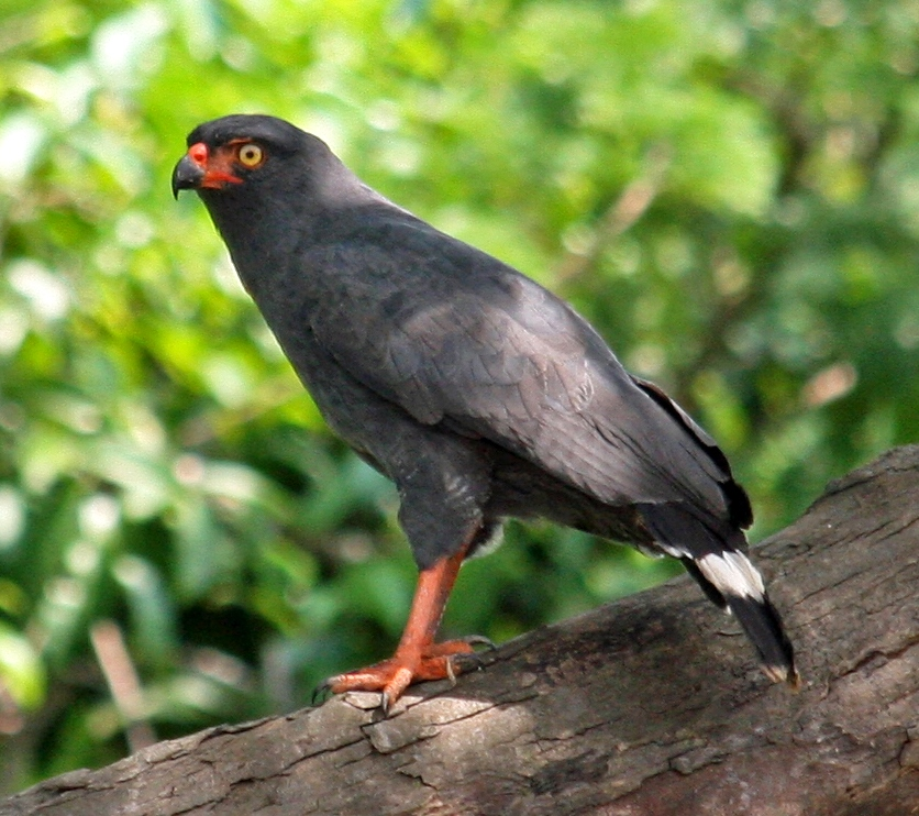 Brazil, Amazonas, Parque Nacional de Anavilhanas.